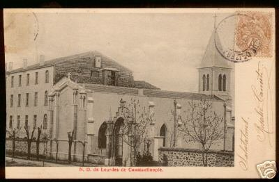 Notre Dame de Lourdes, Georgian Catholic Church in Constantinople.